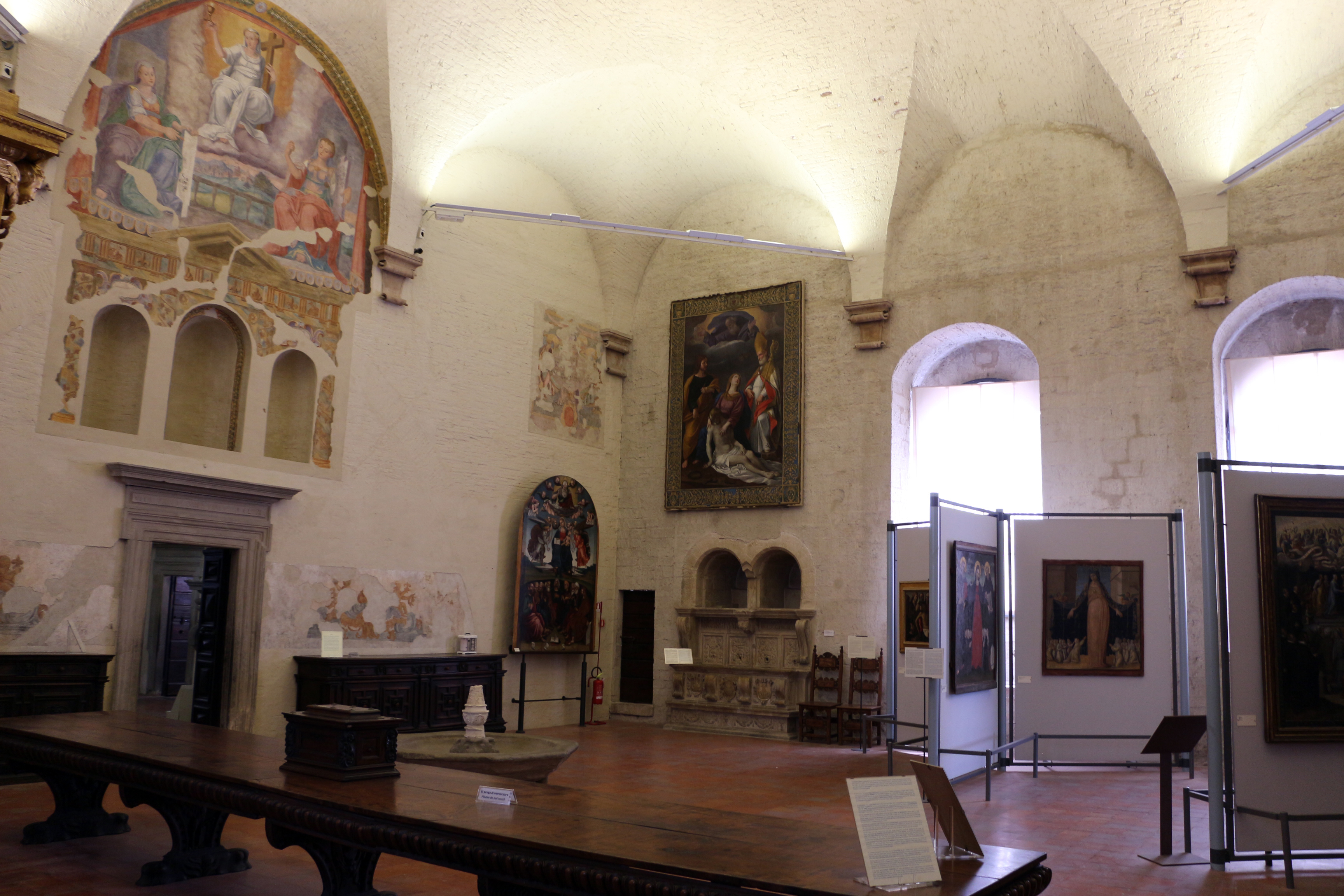 Palazzo dei Consoli (Gubbio)